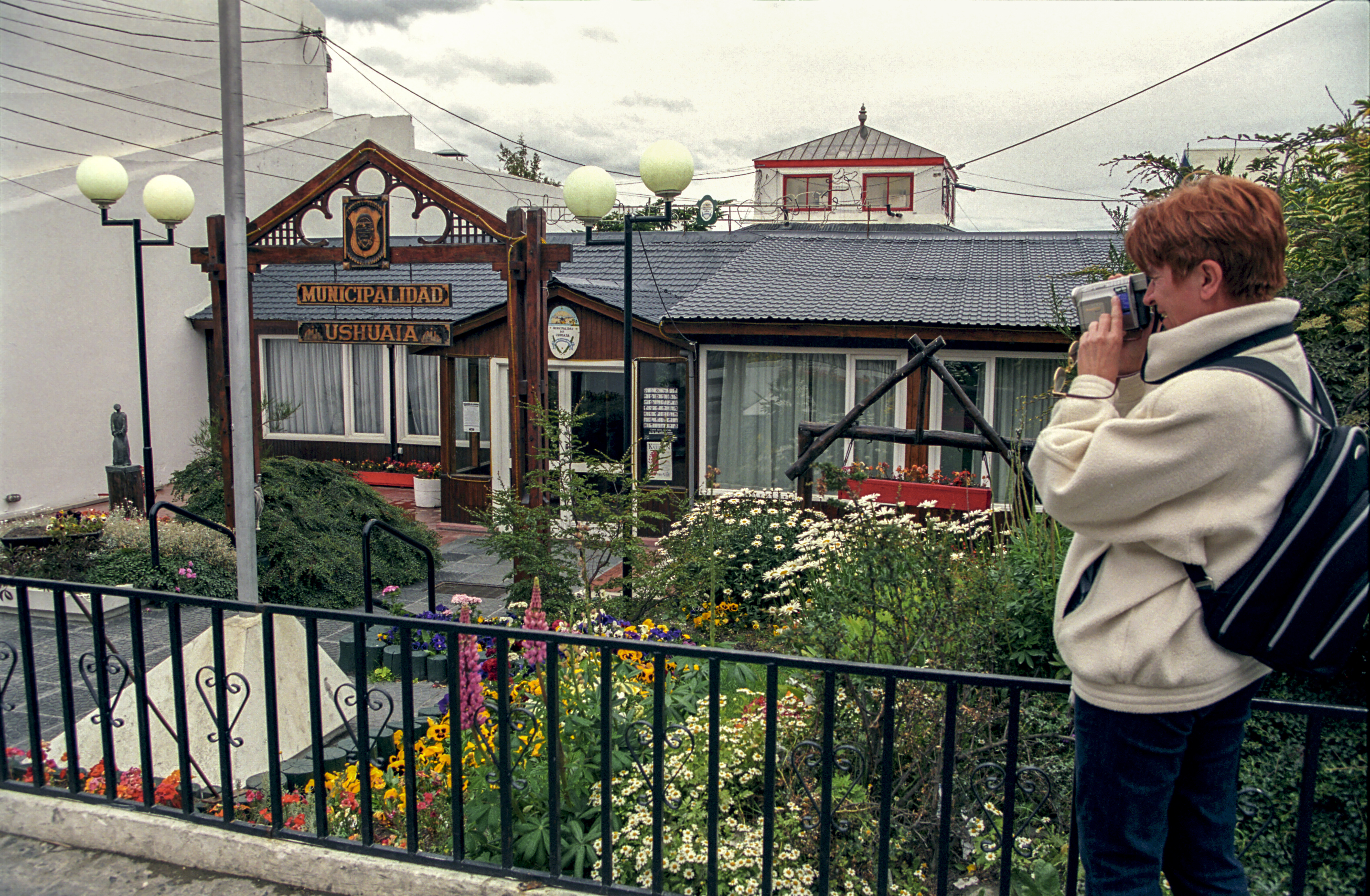 Ushuaia, City Hall